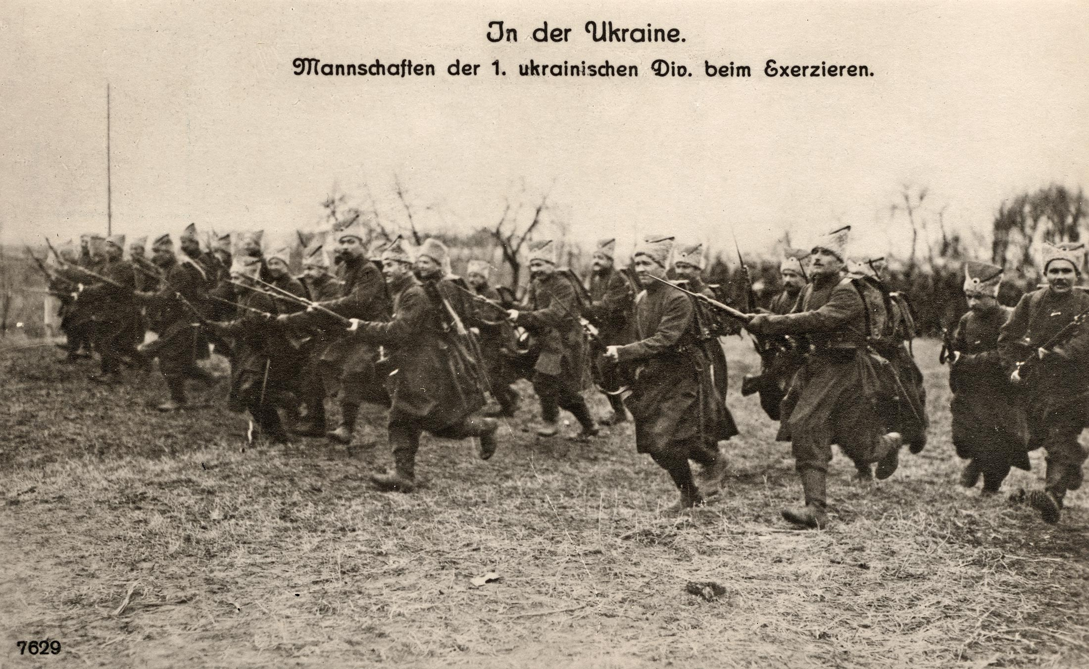 1st Ukrainian Division – the so called Bluecoats